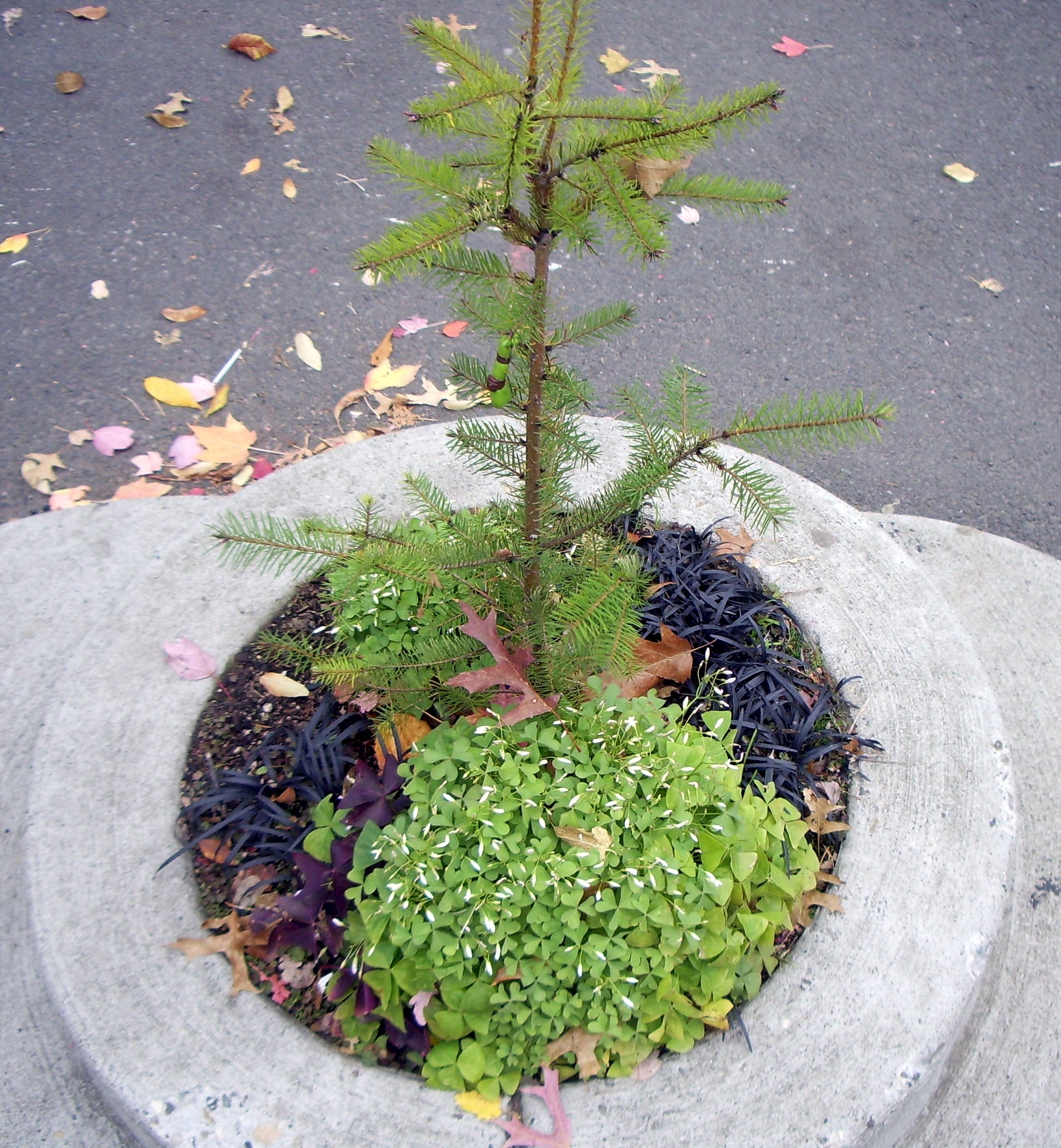 Closeup of Mill Ends Park in Portland, Oregon, the worlds smallest park